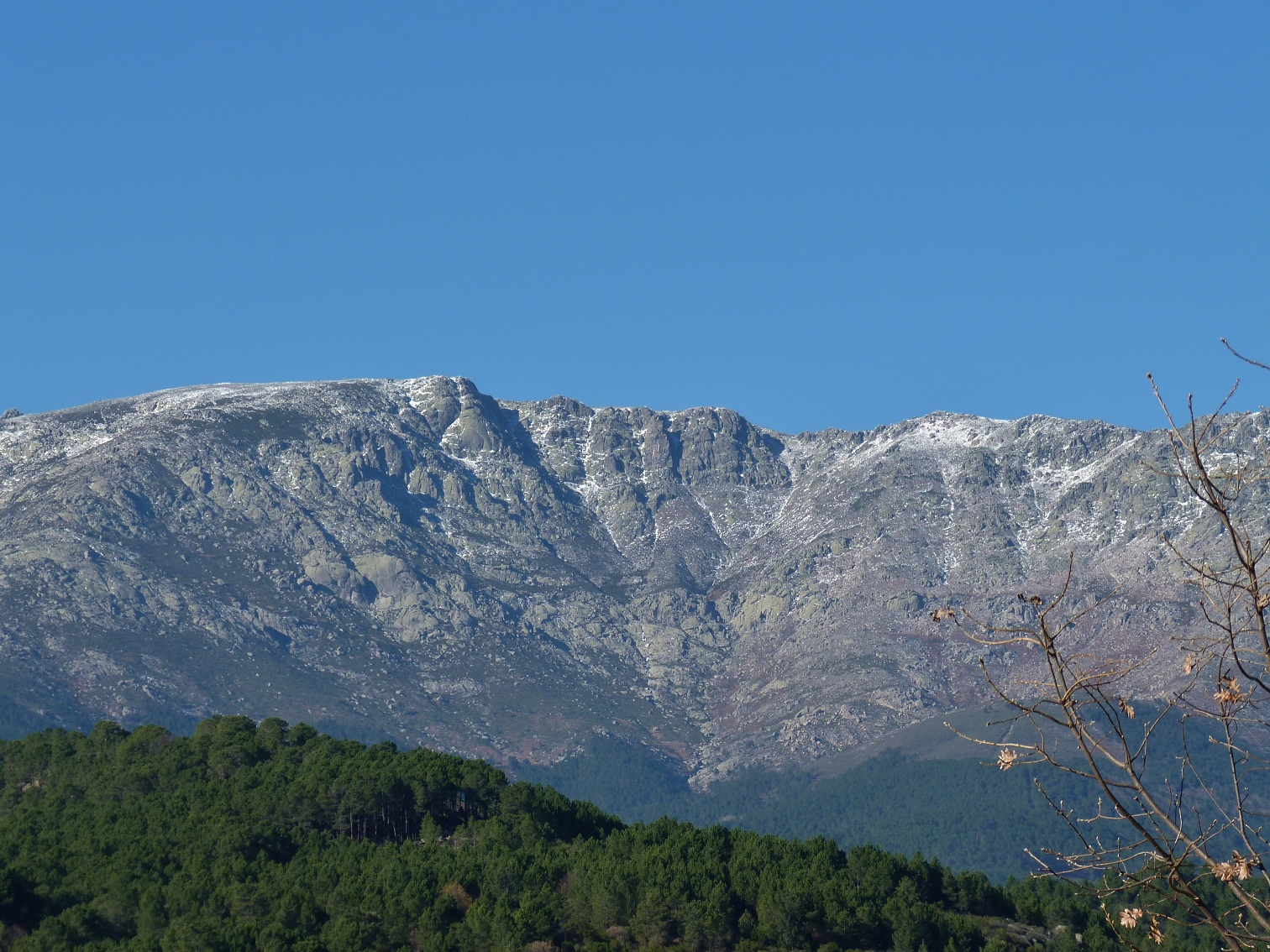 View of the "Peñón del Mediodía" summit in Sistema Central mountain System. (Sierra de Gredos range). Province of Ávila, Castile and León, Spain.